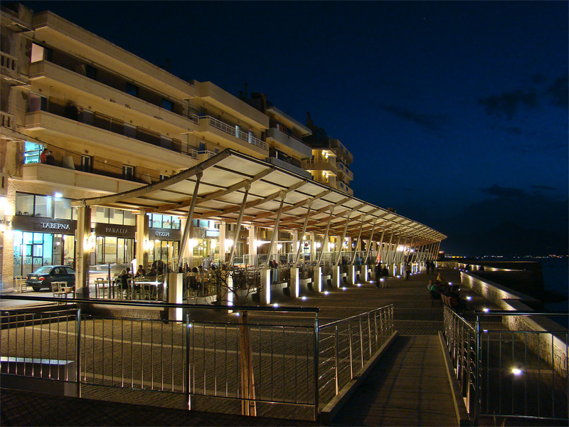 Sofokli Venizelou Avenue, Heraklion, Crete, Greece. Dining on the sea front.